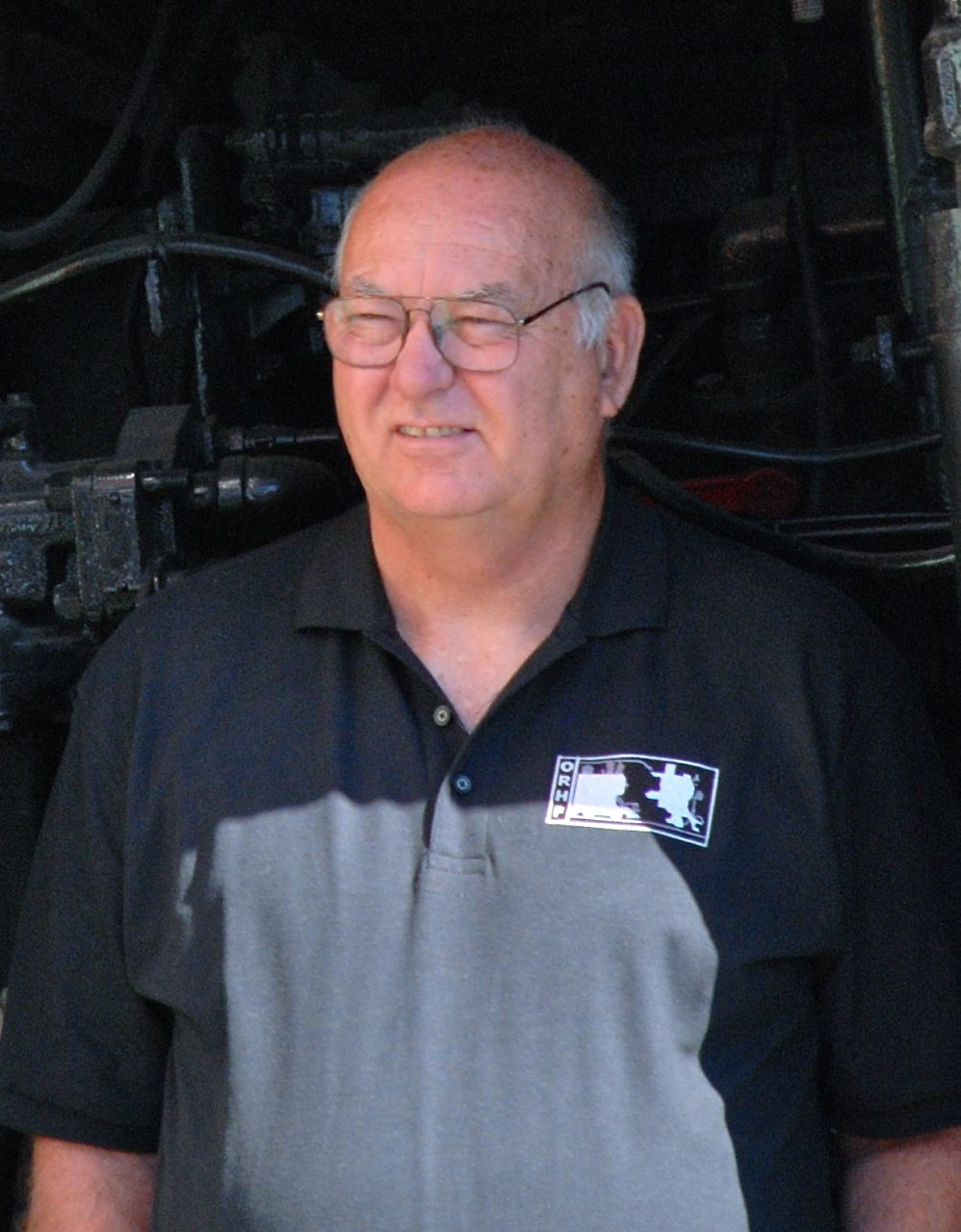 Doyle McCormack at the opening of the Oregon Rail Heritage Center (in Portland, Oregon). He is standing next to Southern Pacific 4449.